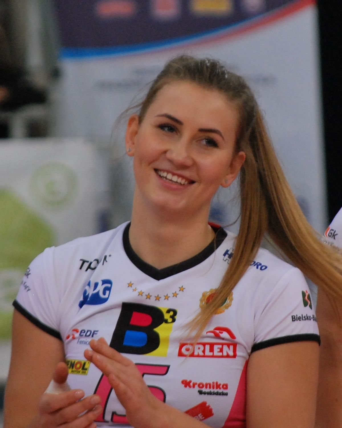 Kornelia Moskwa, volleyball player from Poland